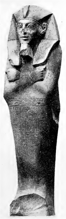 Ushabti of Ahmose I at the British Museum (BM 32191). Reign of Ahmose I, 18th dynasty, New Kingdom.